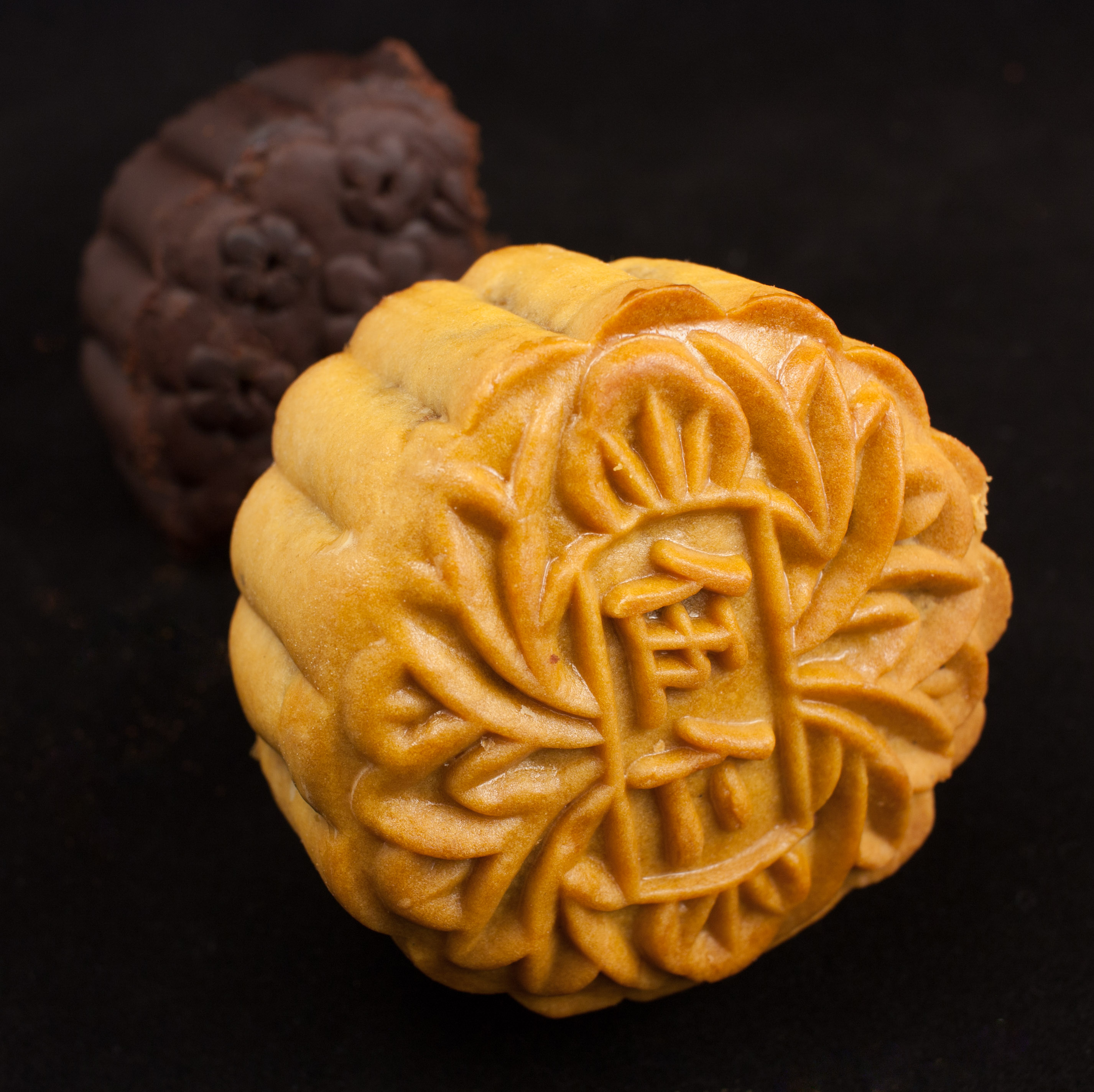 Mooncakes